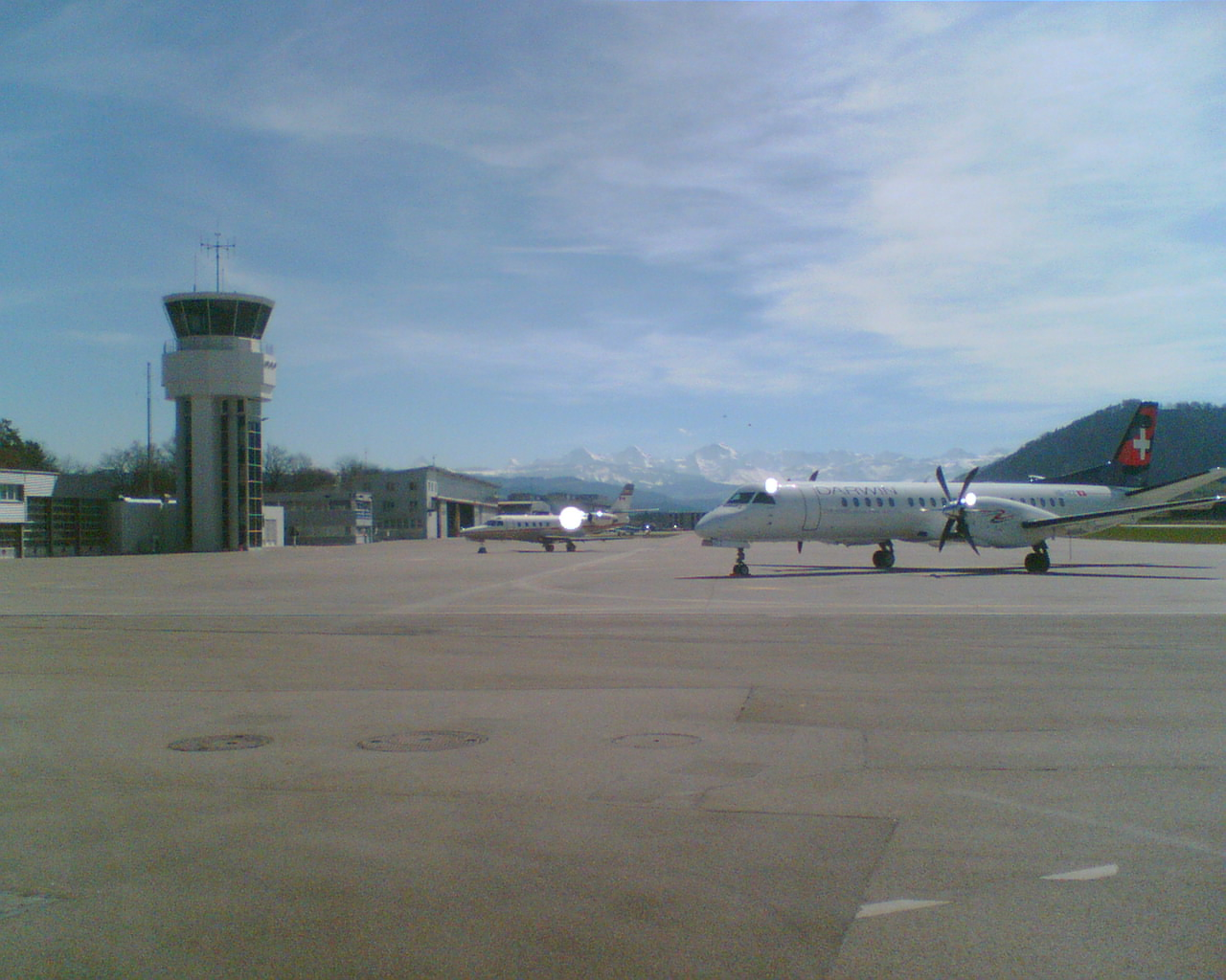 Lovely Alpine airport in Berne. The tower can be seen on the left side.